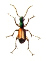 Odacantha melanura, from Calwer's Käferbuch, Table 5, Picture 10. Taxonomy was updated to 2008, using mostly the sites Fauna Europaea and BioLib. Please contact Sarefo if the determination is wrong!